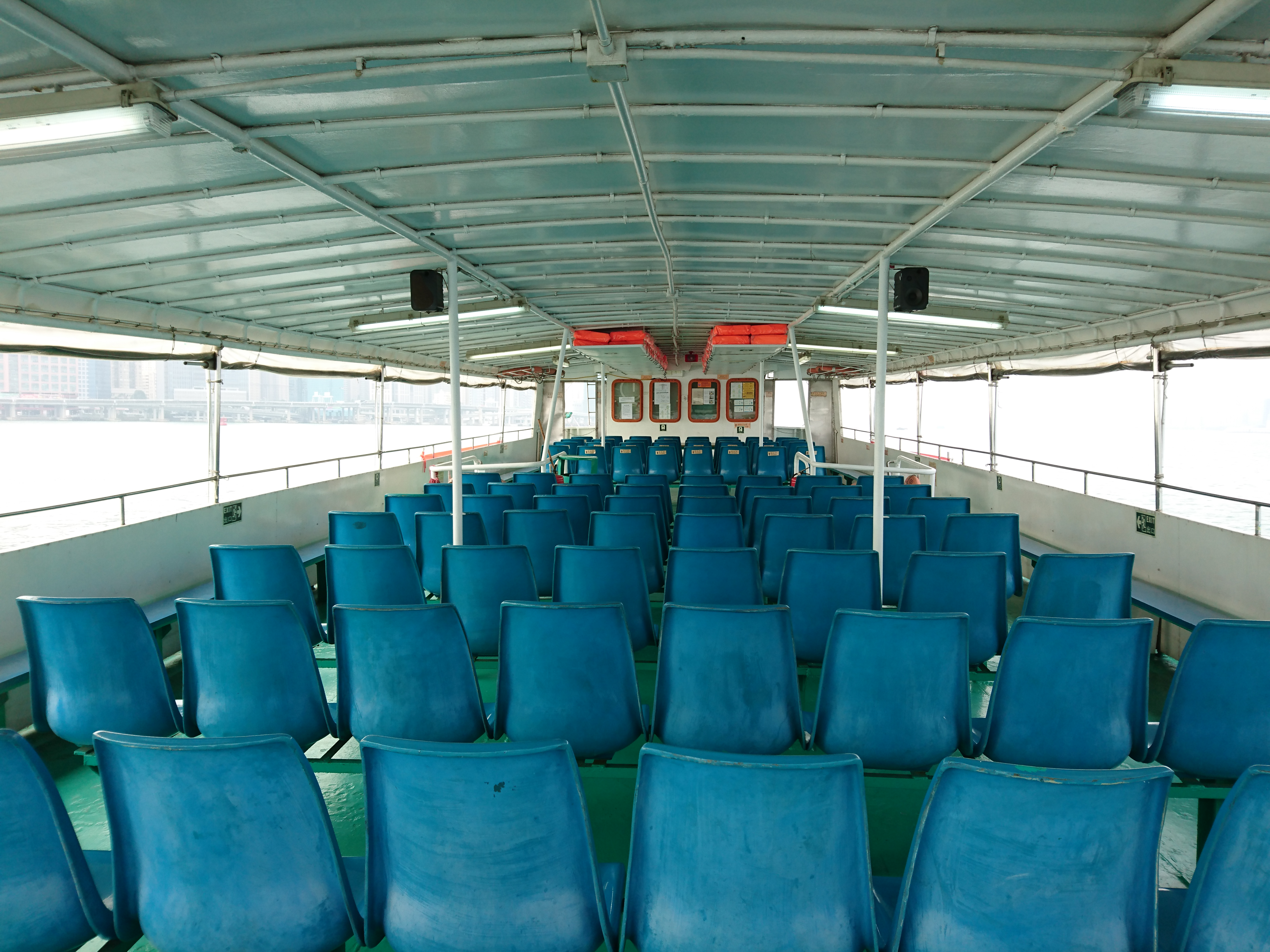 Upper Deck of a Fortune Ferry